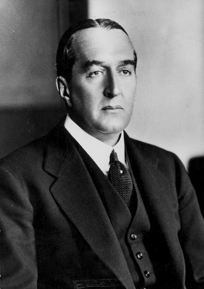 Prime Minister Stanley Melbourne Bruce, circa 1920s.